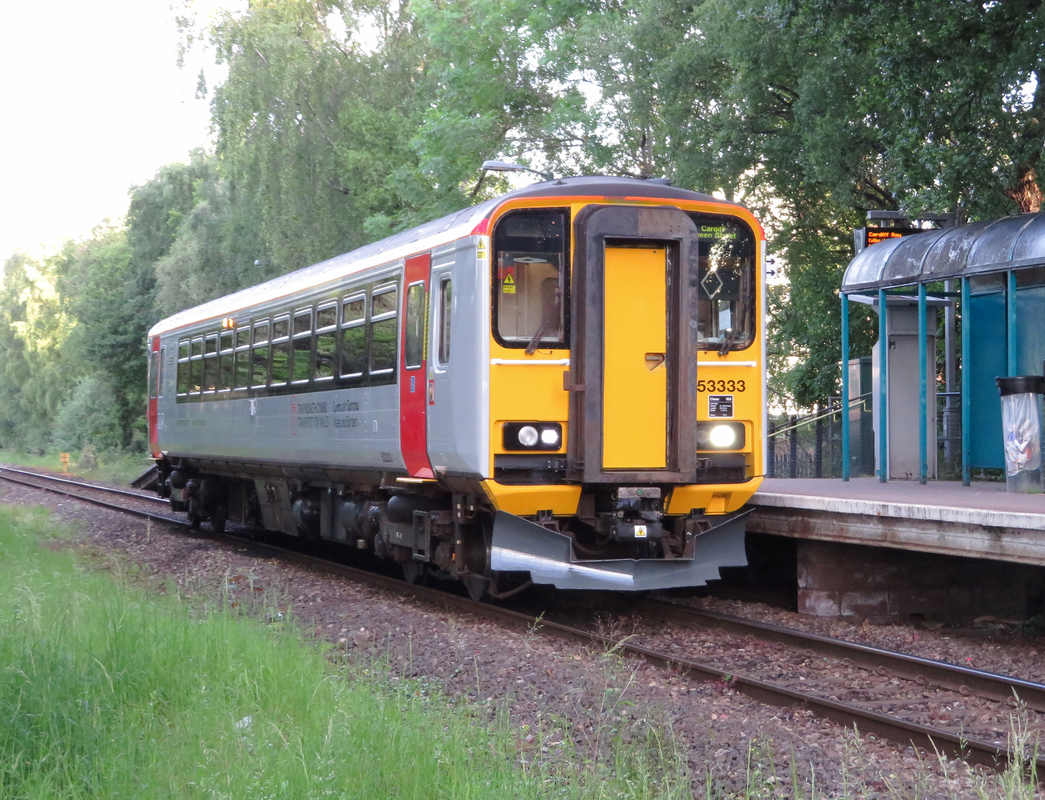 Class 153 at Ty Glas station